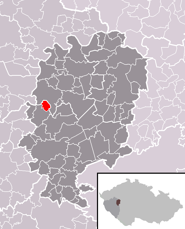 Location of Všenice municipality within Rokycany District and within identical administrative area of Rokycany as a Municipality with Extended Competence.